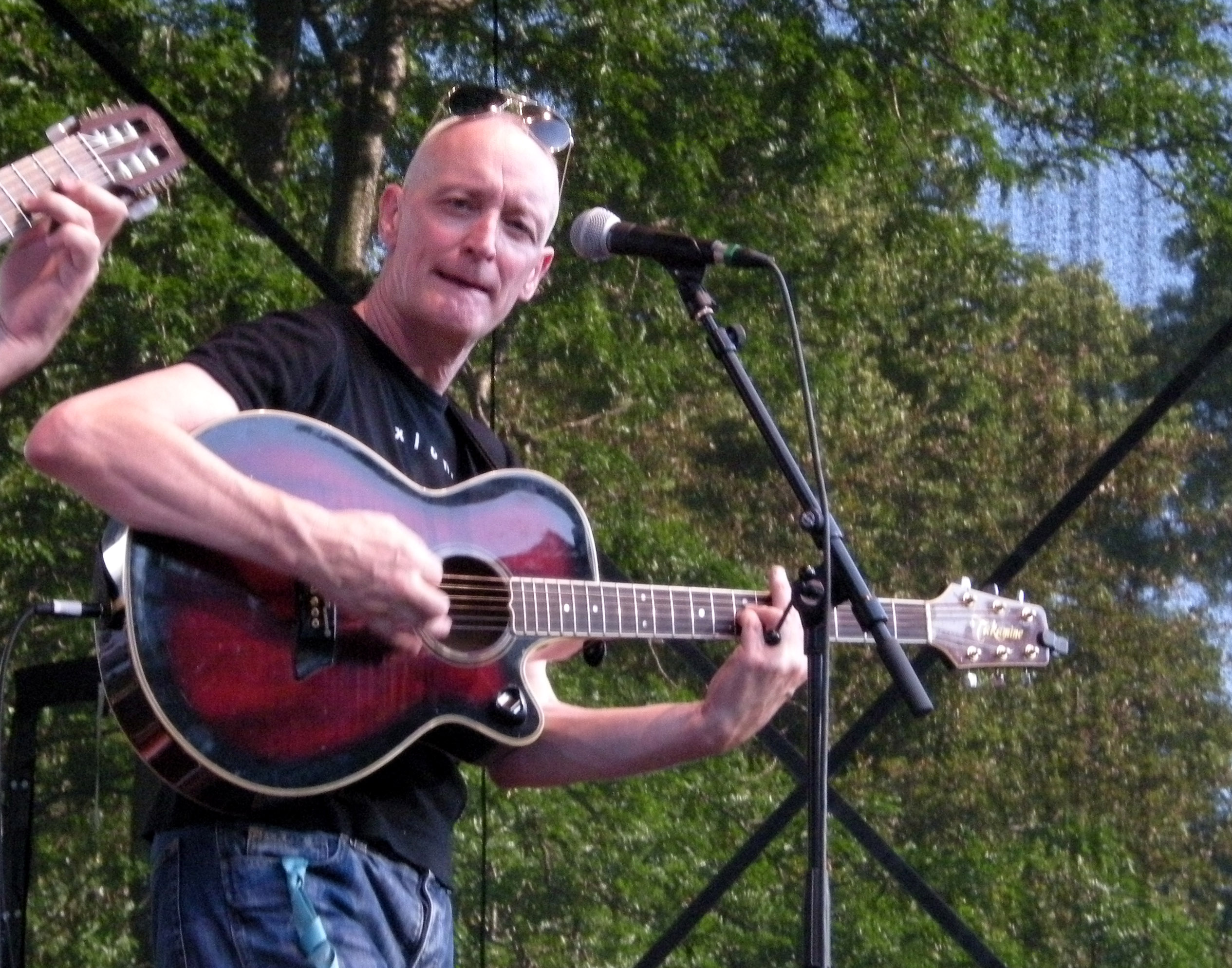 see file name, and